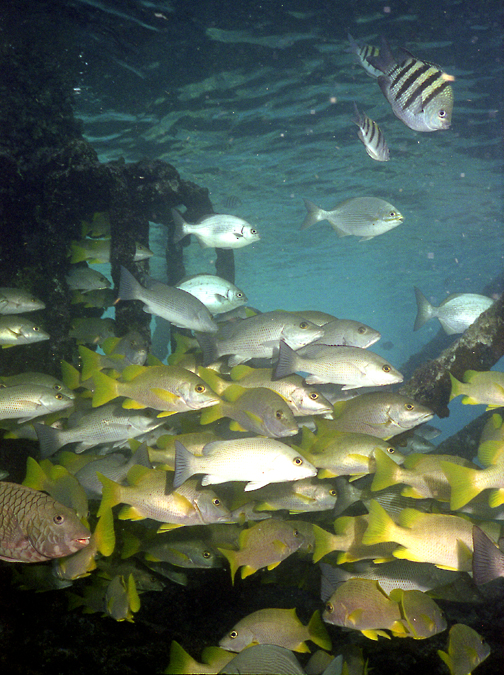 A view of the sealife beneath Alligator Reef Light. July 19, 2006 with Sea and Sea MX-10 35mm camera